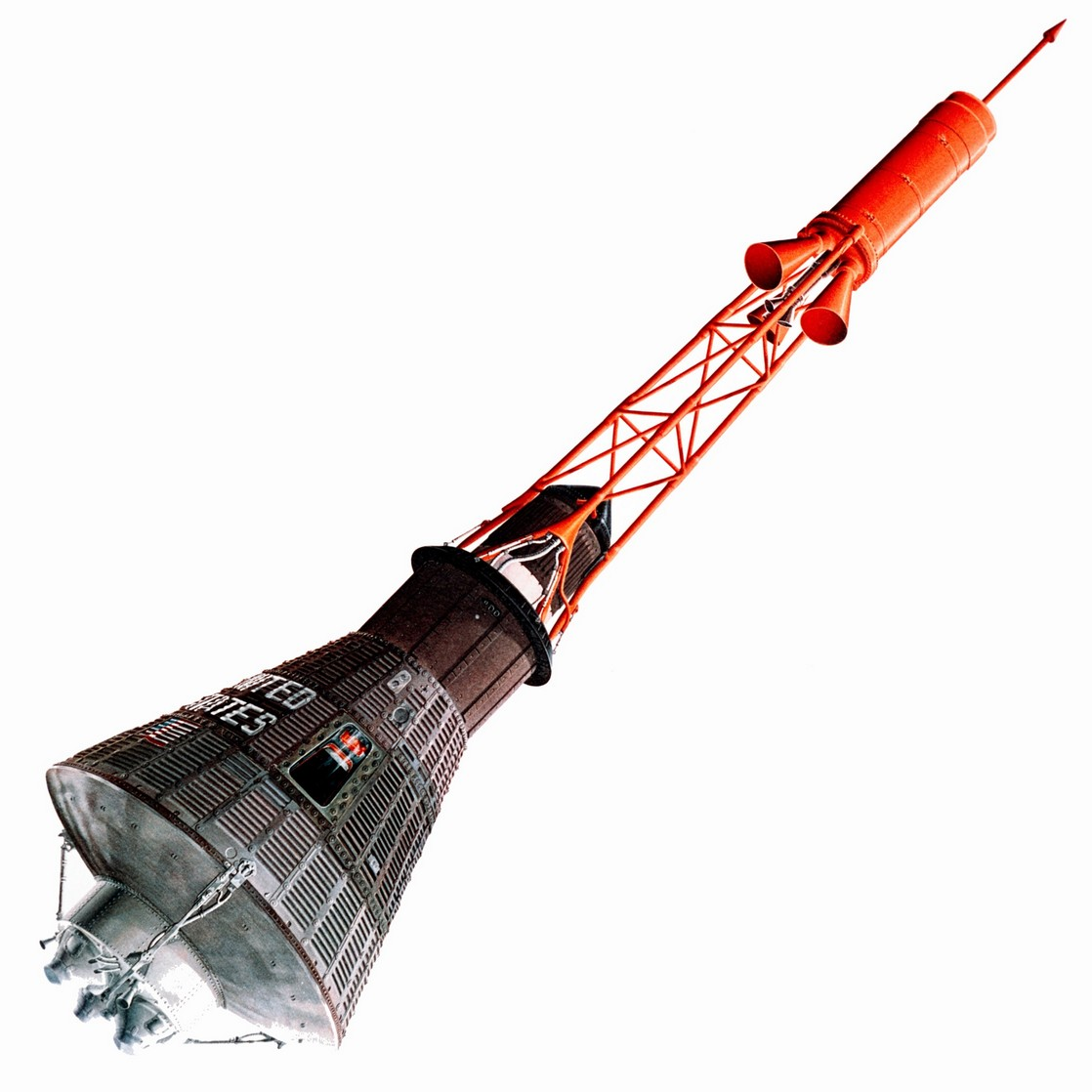 Artists concept of Mercury capsule with launch escape system.